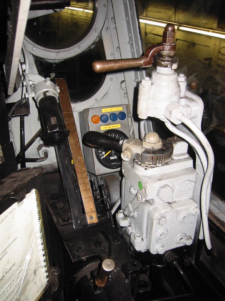 Driver's brake valve D2 and auxiliary brake valve on a German steam locomotive